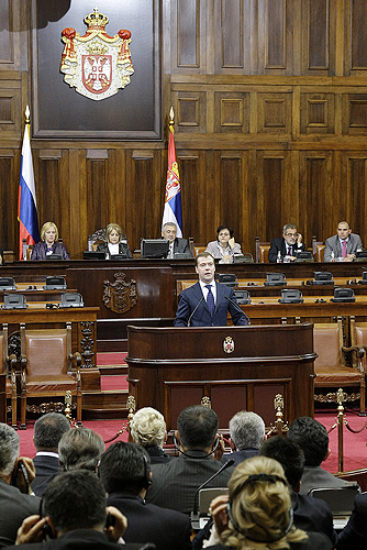 BELGRADE. Speech at Serbian National Assembly.